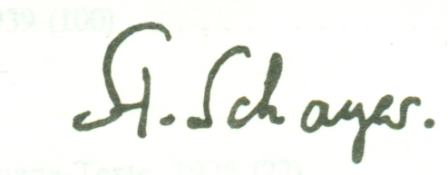 Signature of Stanisław Schayer (1899-1941), Polish linguist, specialist in Indian studies and philosopher